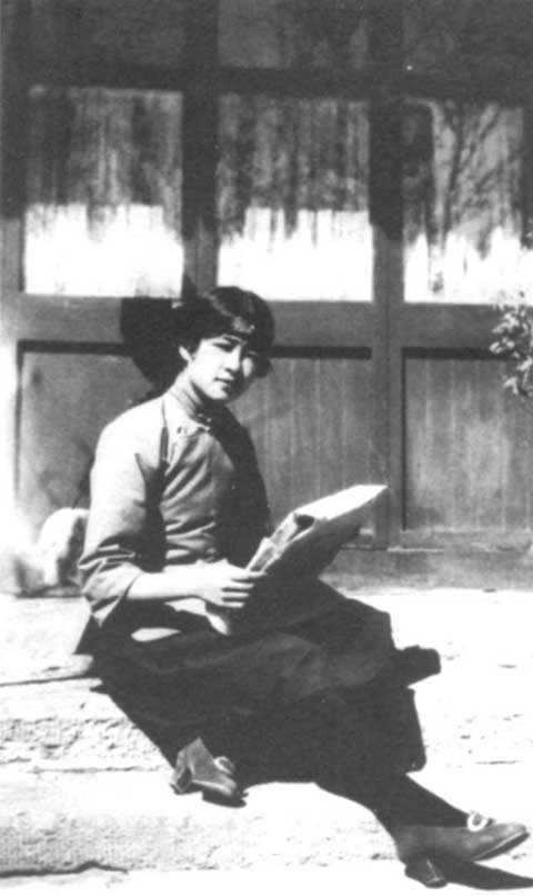 Lin Huiyin (1904-1955)